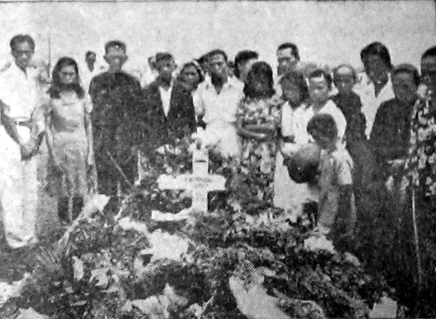 The grave of Robert Wolter Monginsidi, shortly after he was moved to the heroes' cemetery in Makassar. His family surrounds the grave.